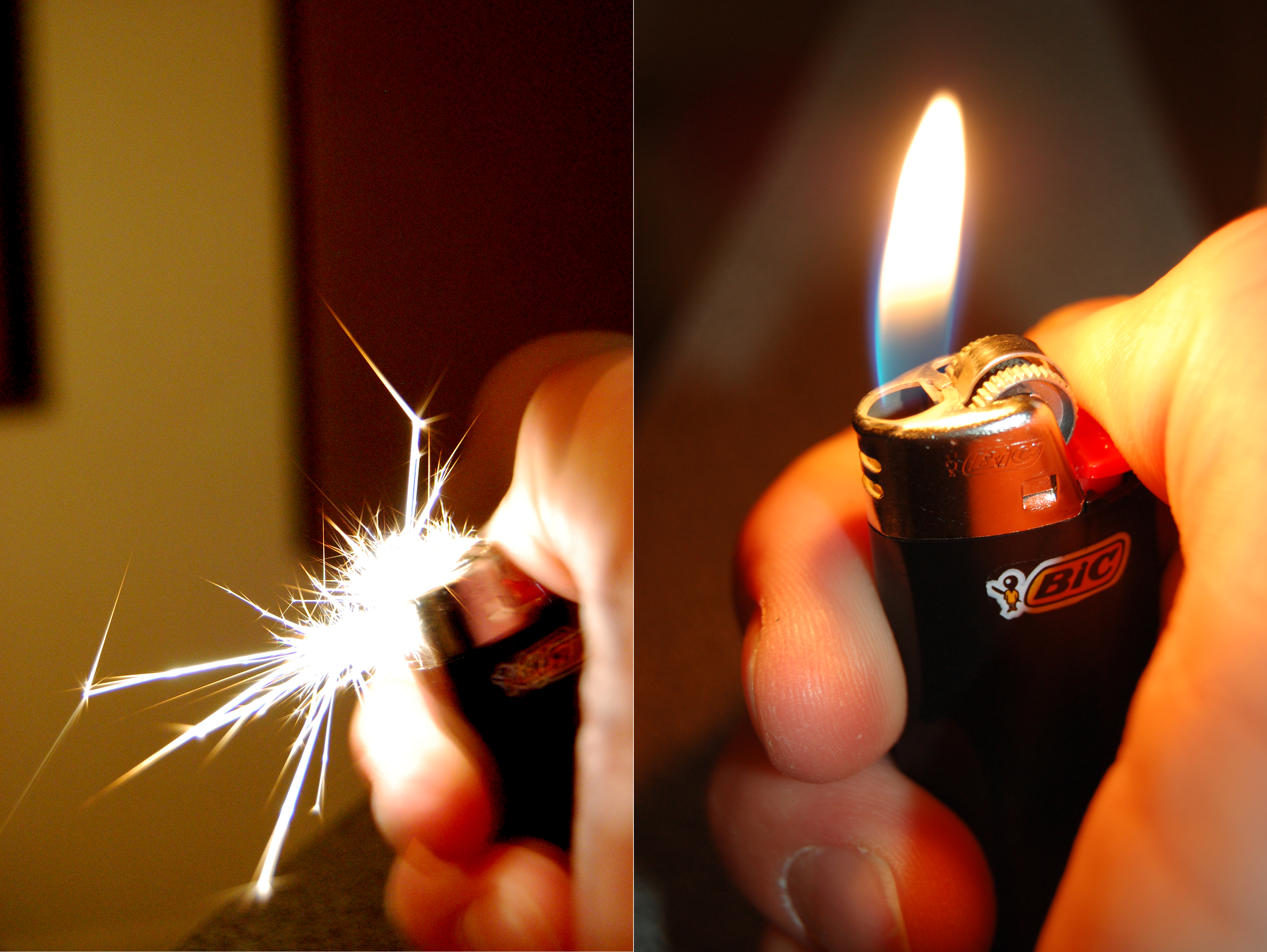 I took these photos to closely demonstrate the lighter's function.